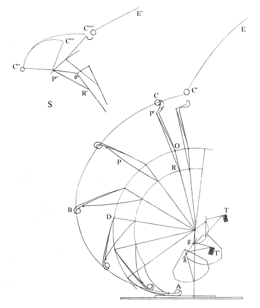 Movement of trebuchet An illustration of the movement of the trebuchet, specifically how the projectile rotates and is released.